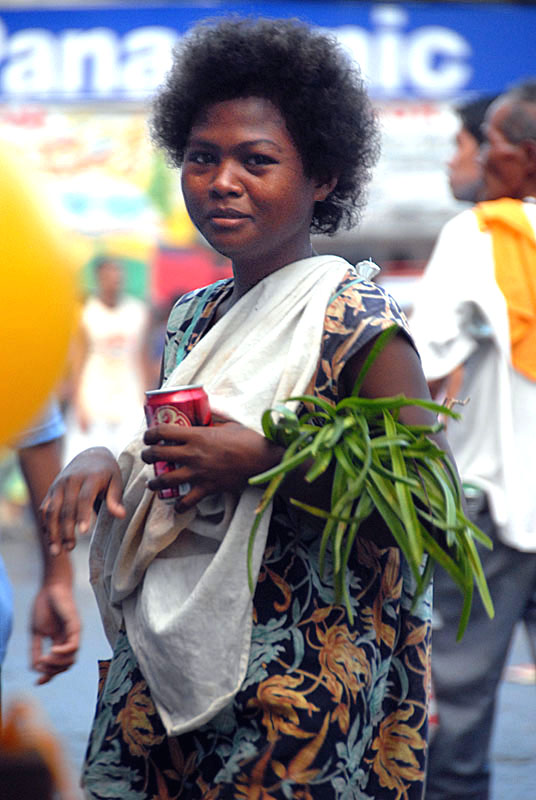 The Aeta (Ati) is one of the native peoples of the Philippines. An Ati (Aeta) woman from the hinterlands of Panay Island in the Philippines.